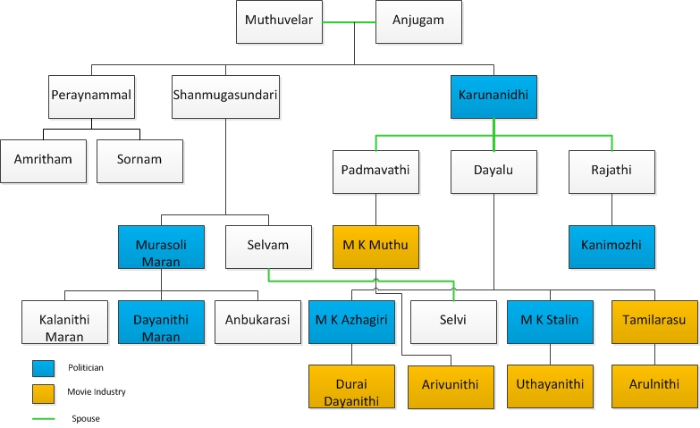 Karunanithi family